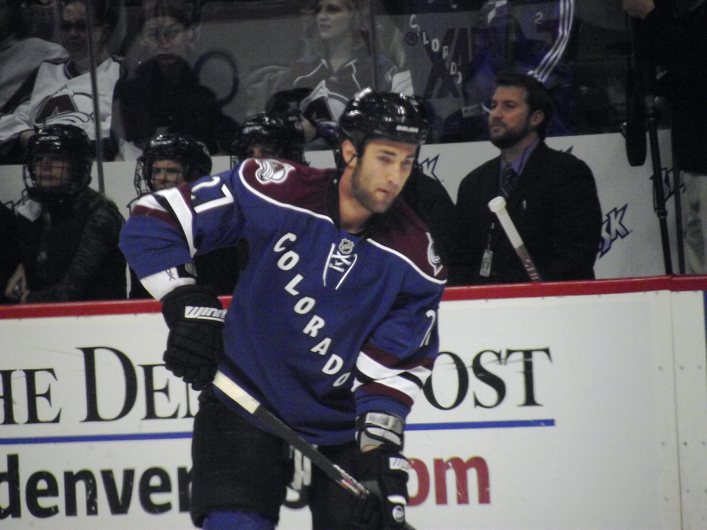 Kyle Quincey in a Colorado Avalanche jersey.